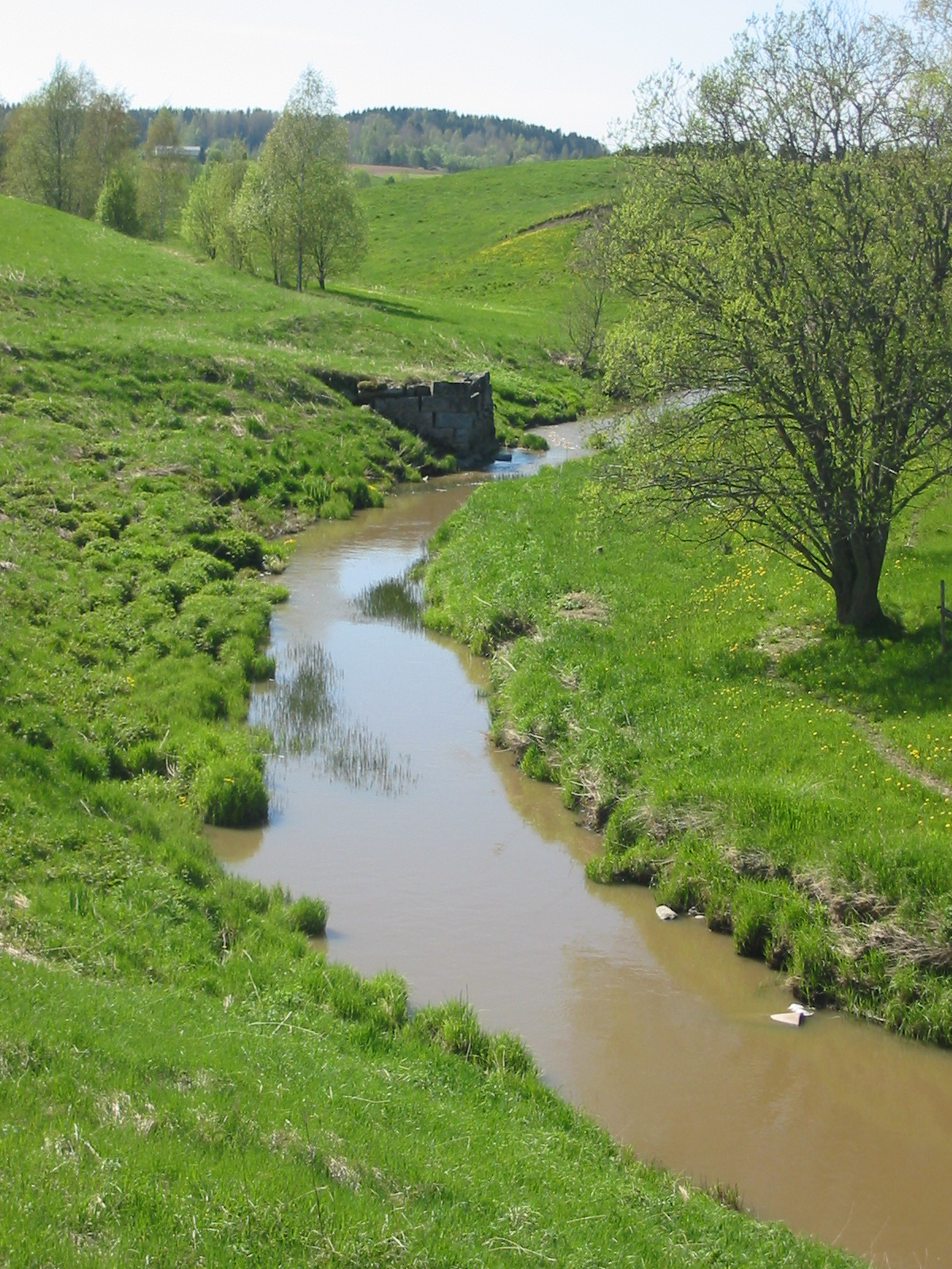 River Kurajoki in Pertteli, Finland Proper, Finland